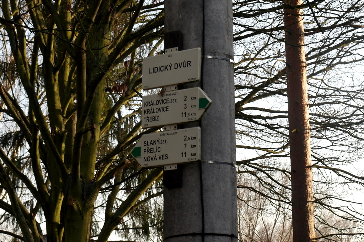 Church of St. James the Greater, Otruby (Slaný), Kladno District. Tourist signpost at the church, specifying location, which is called Lidický dvůr..